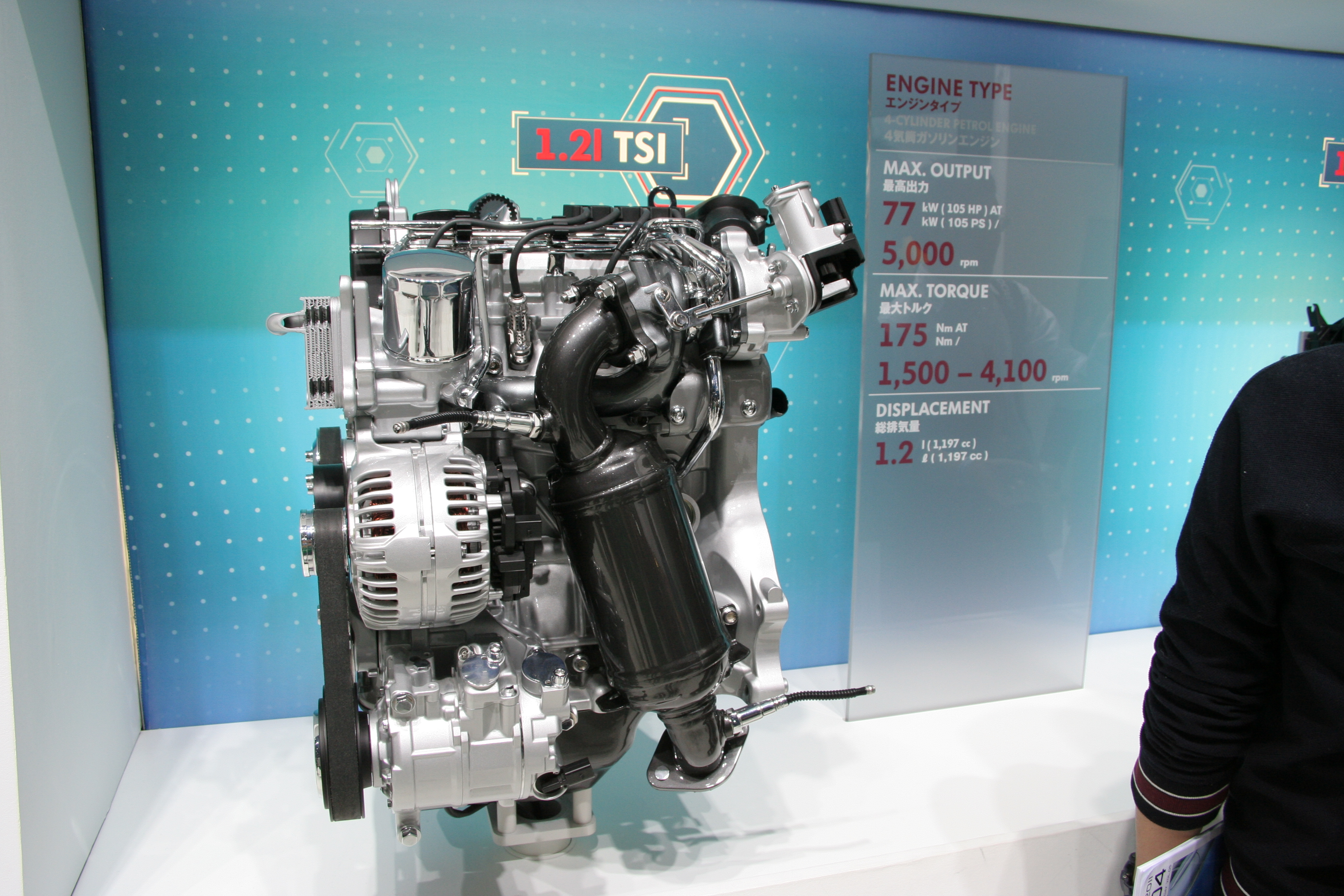 Volkswagen 1.2 TSI engine in Tokyo Motor Show 2011.